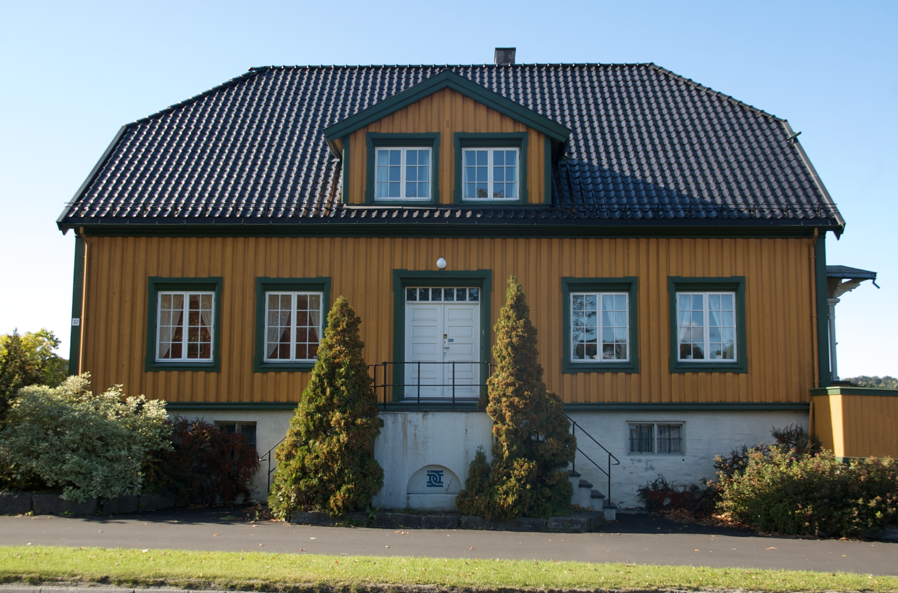 Building in Skien, Norway. Address: Klostergata 32.